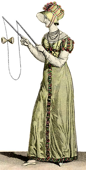 Young lady playing the "diabolo" game, from Costumes Parisiens, 1812 (The game was known as "The Devil on Two Sticks" in England at the time; the name "diabolo" was only invented later...)